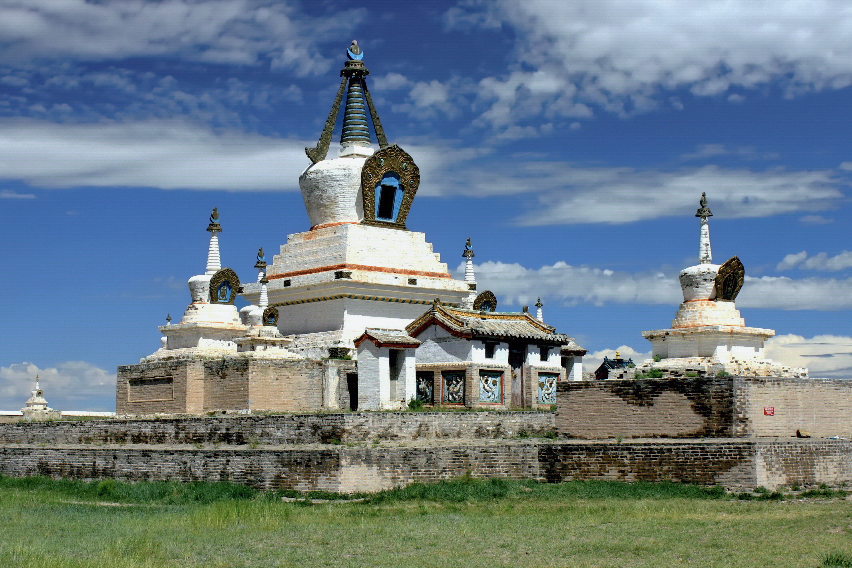 Golden Stupa in the Erdene Zuu Monastery. Kharkhorin, Övörkhangai Province, Mongolia.